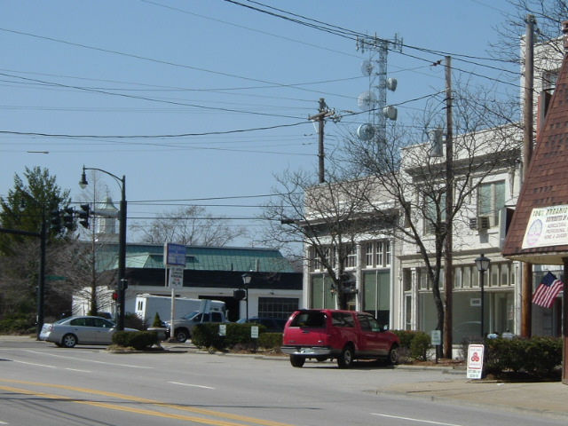 Downtown Jeffersontown, Kentucky.